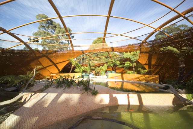 Interior view of the structure